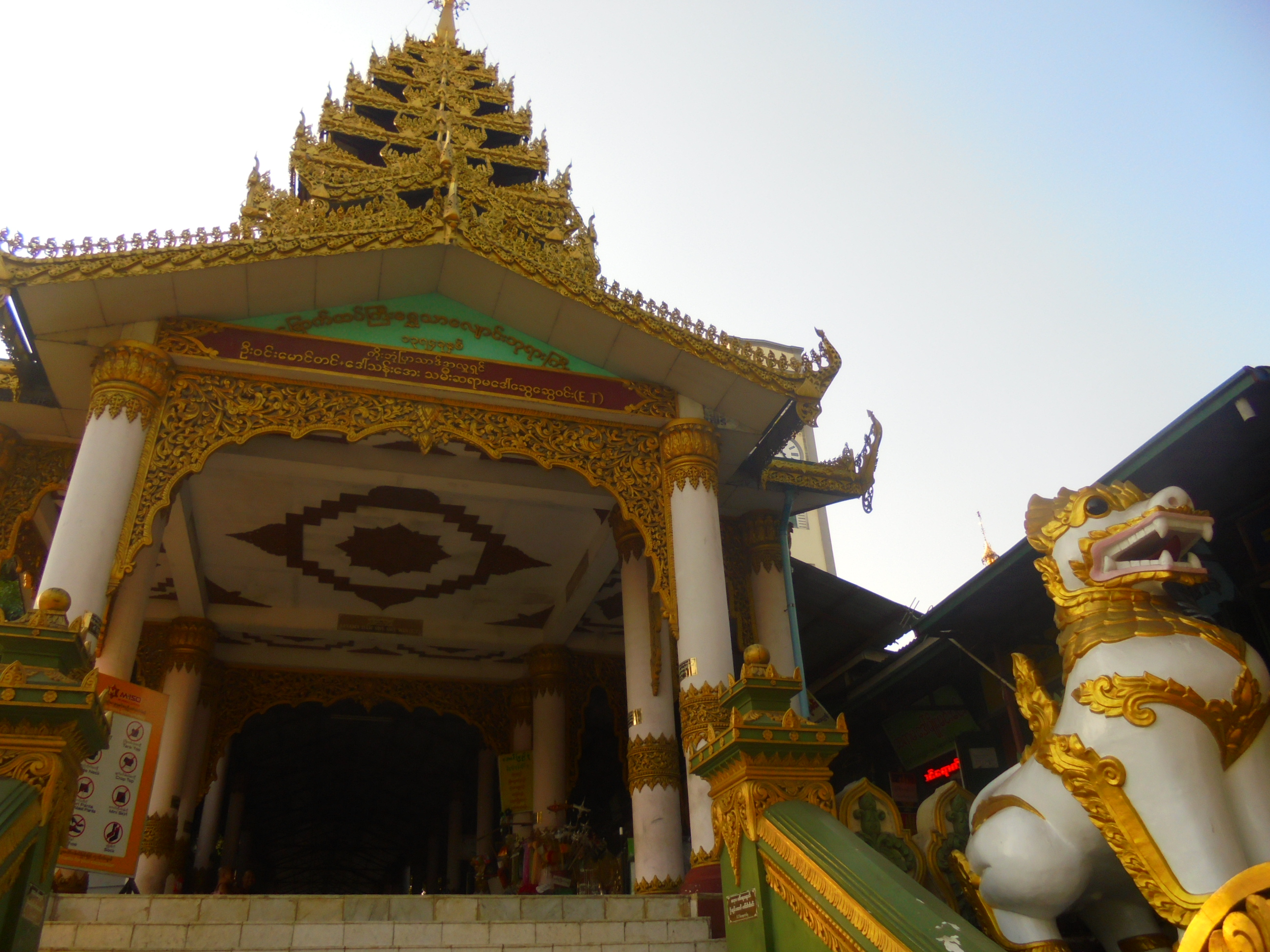 Main Entrance of Chaukhtatgyi Buddha Temple, Yangon